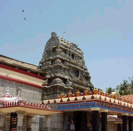 Sree Sharadha temple, Shringeri, India.